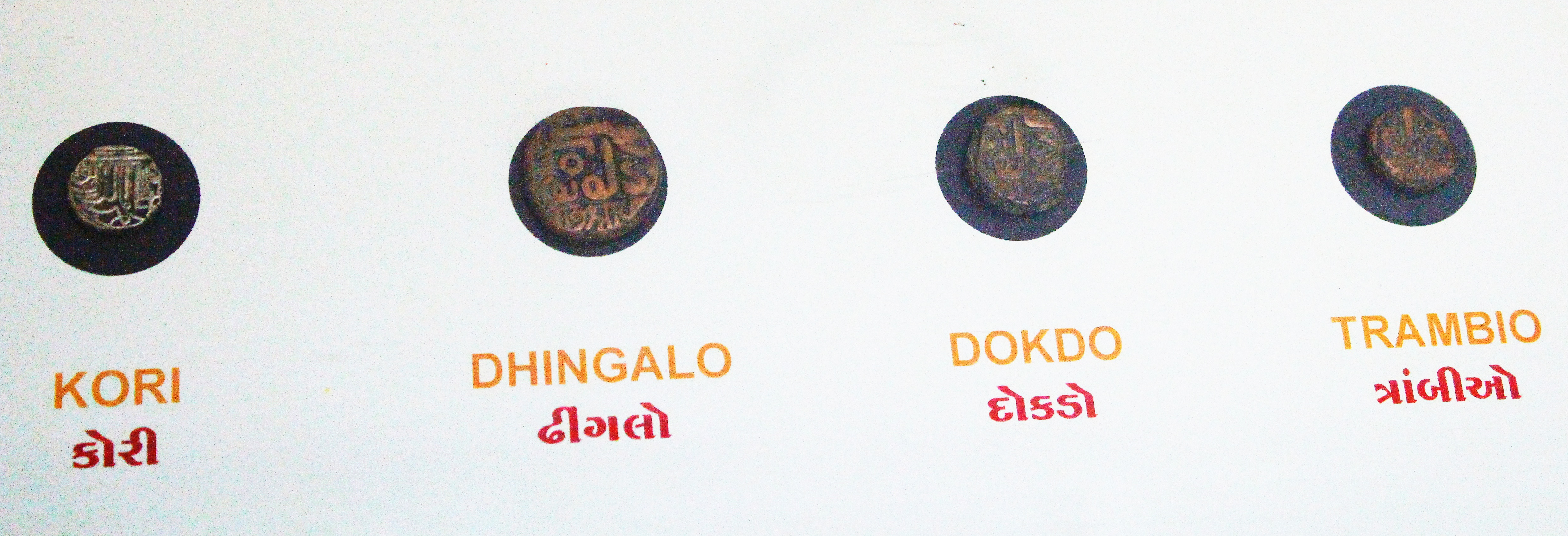 Old Gujarati Coins